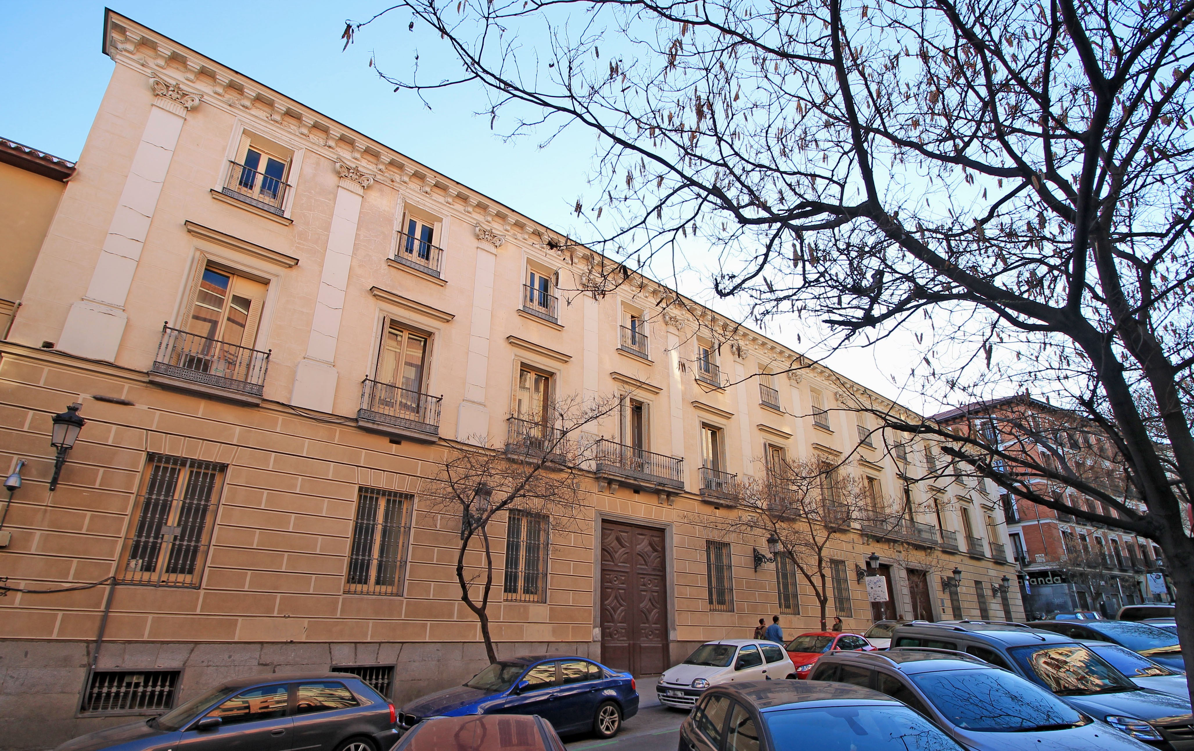 Façade of Palacio de Fernán Núñez (a former mansion) in Madrid (Spain).